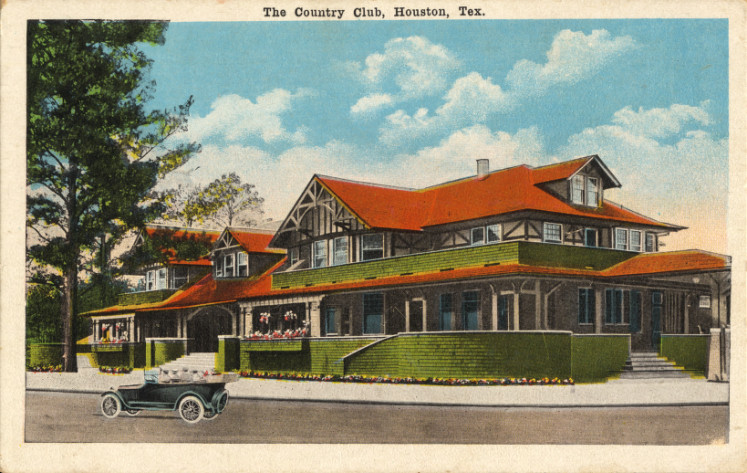 Club house Houston Country Club